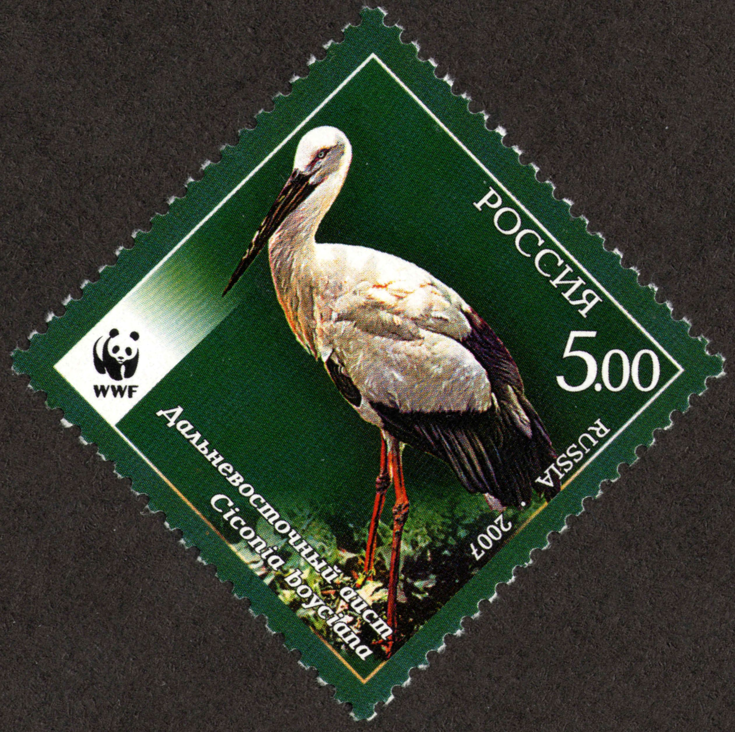 Fauna. The endangered species. Oriental Stork (Ciconia boyciana). The stamp of Russia, 5.00 Ruble, 1 October 2007, PTC Marka Catalogue No 1202, Michel No 1434.